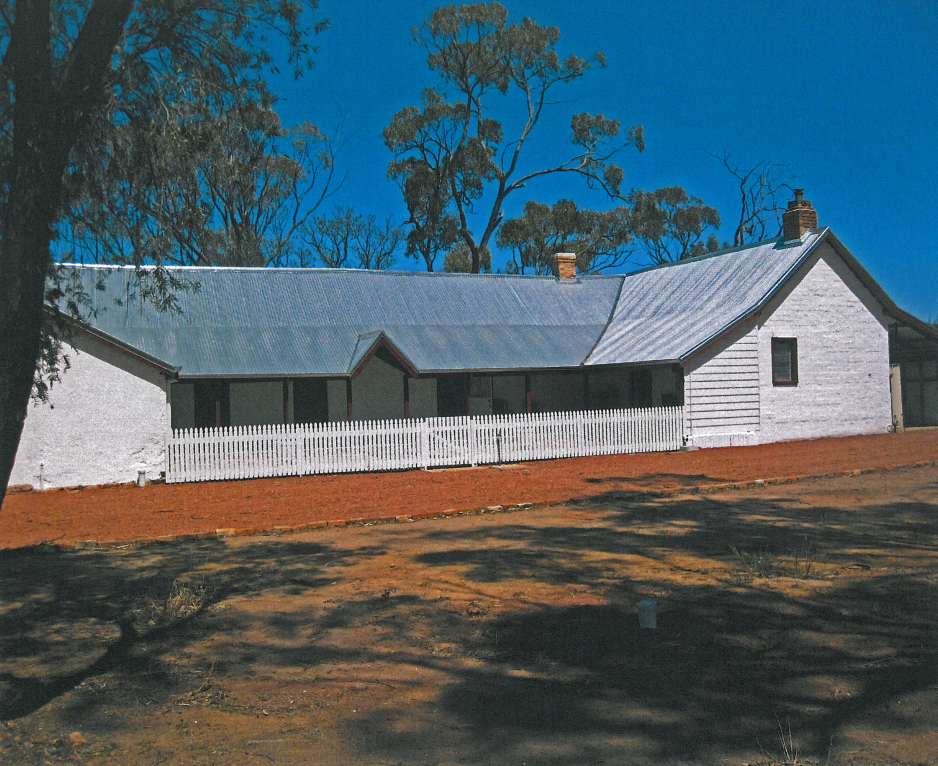 Gwambygine Homestead, Western Australia, after restoration 2011